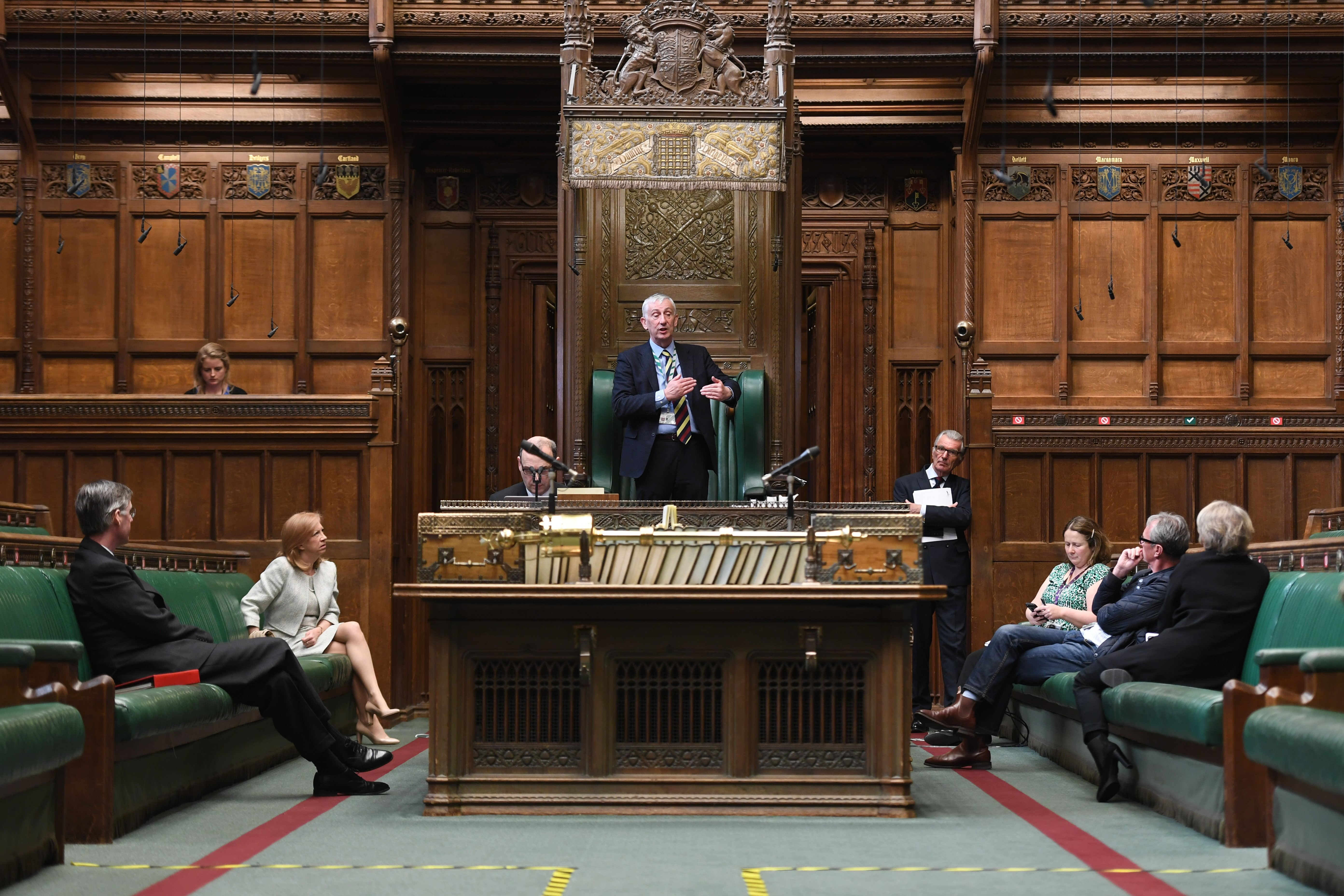 Rehearsal of hybrid procedures in the Chamber of the House of Commons